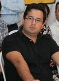 cropped image from